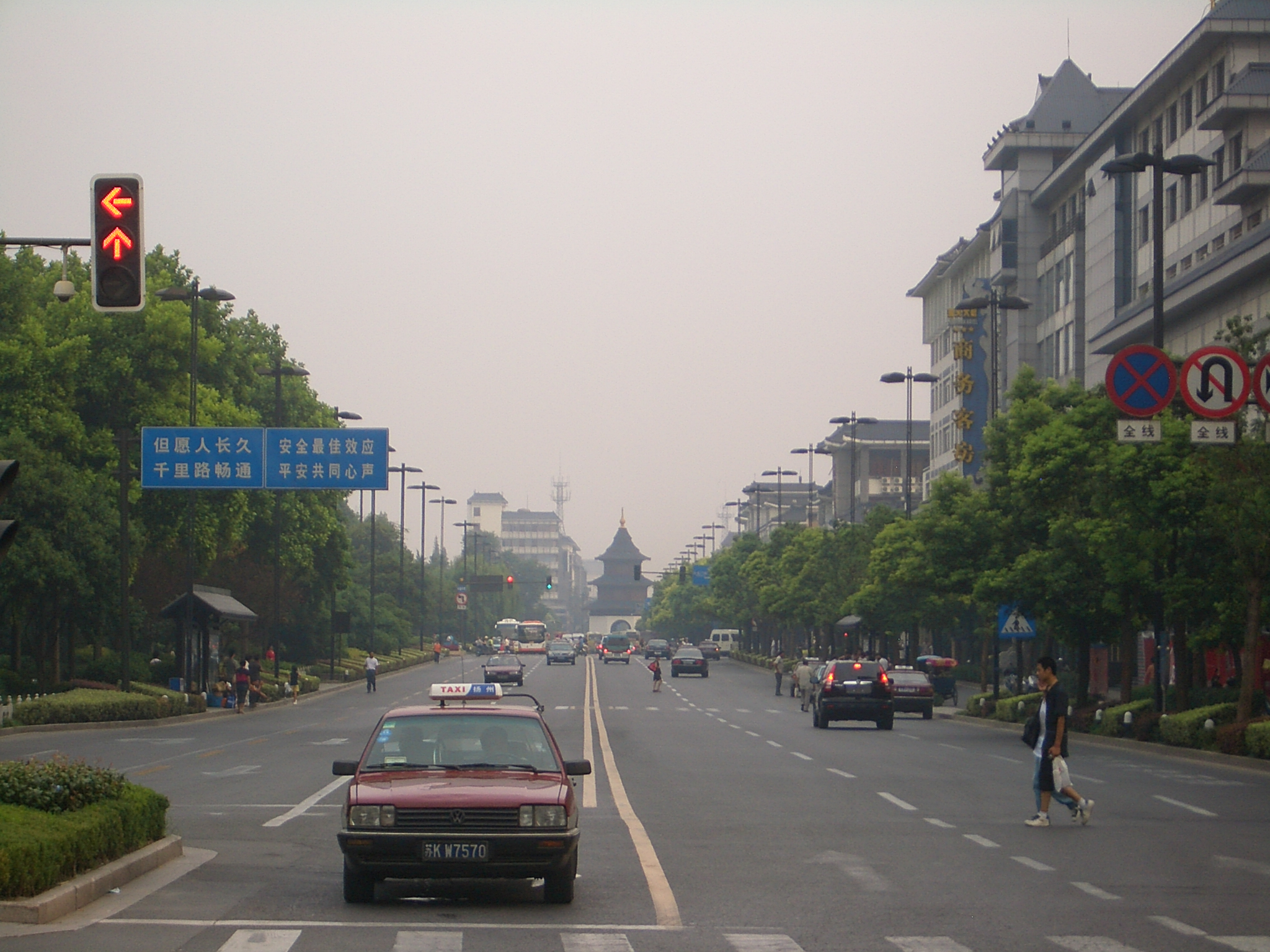 N. Wenhe St in Yangzhou. Looking south, from the former northern city gates toward Wenchang Pavilion, seen at the end of the street